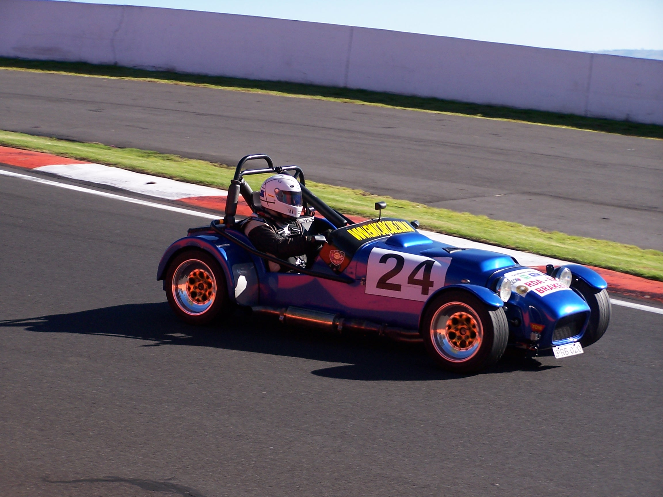 PRB Clubman Widebody driven by James Dick at the Bathurst Motor Festival (2011).